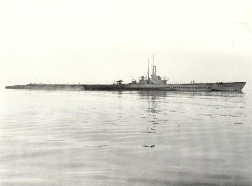 USS_Seahorse; Seahorse (SS-304), underway, starboard view, post 1943 in the Pacific. US Navy photo courtesy of John Hummel.